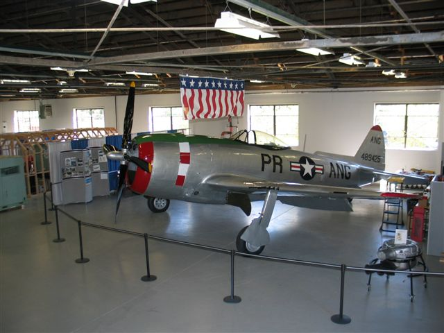 Picture of Lieutenant Colonel José Antonio Muñiz's P-47 which I took at Muñiz Airbase in Puerto Rico